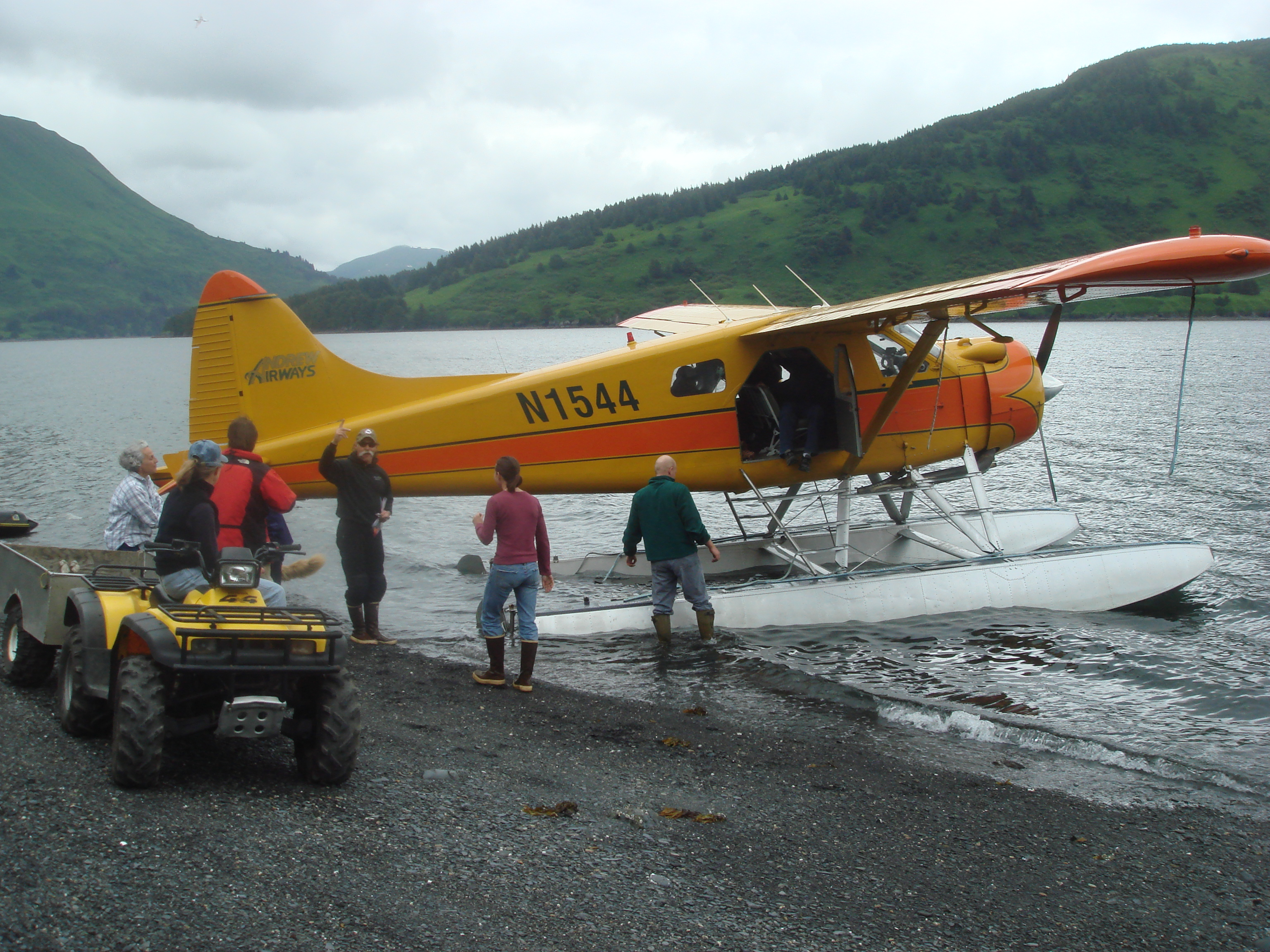 Andrew Airways De Havilland Canada DHC-2 (N1544). Floatplanes are common form of transportation on the Kodiak archipelago